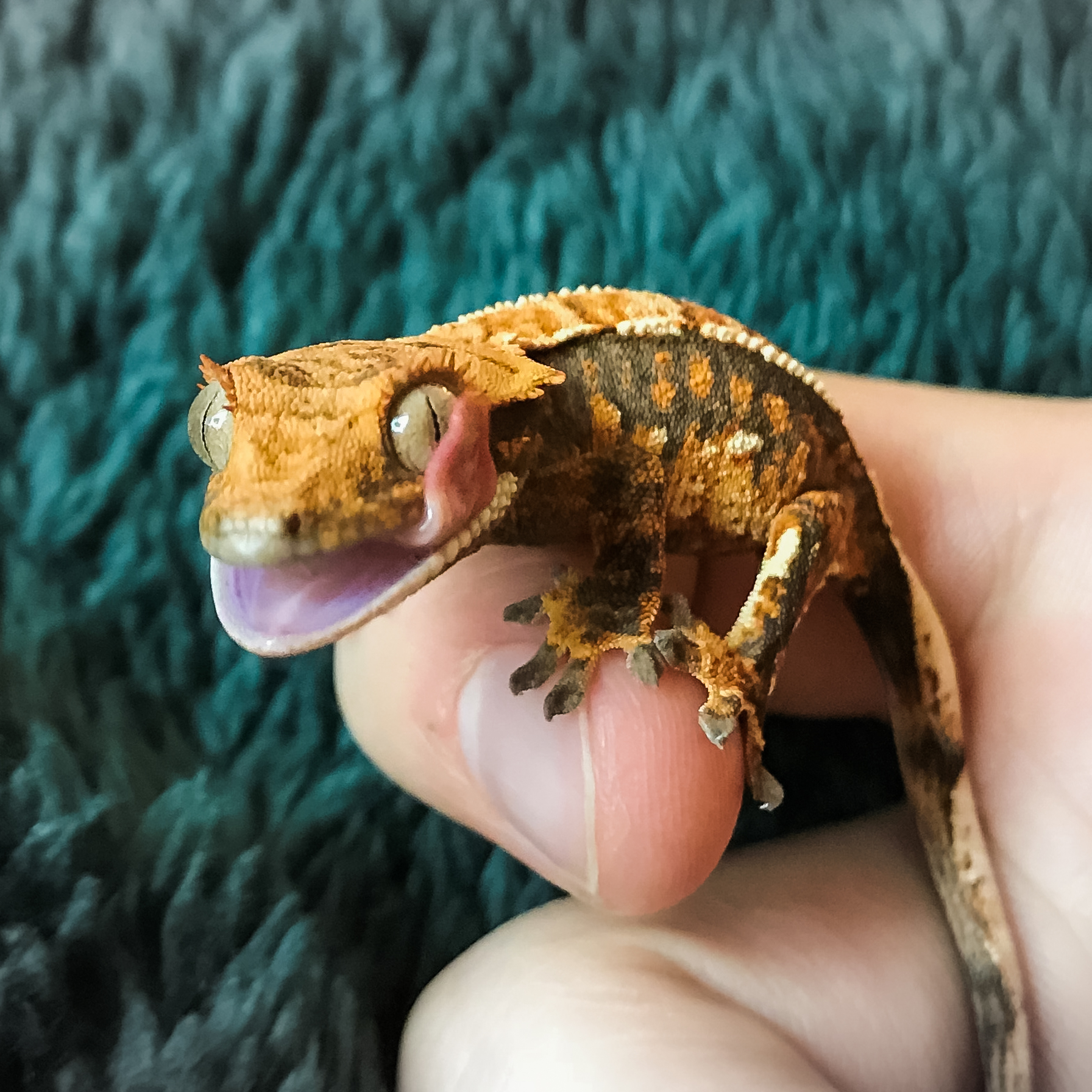 Crested geckos in captivity are docile and tolerate regular handling.